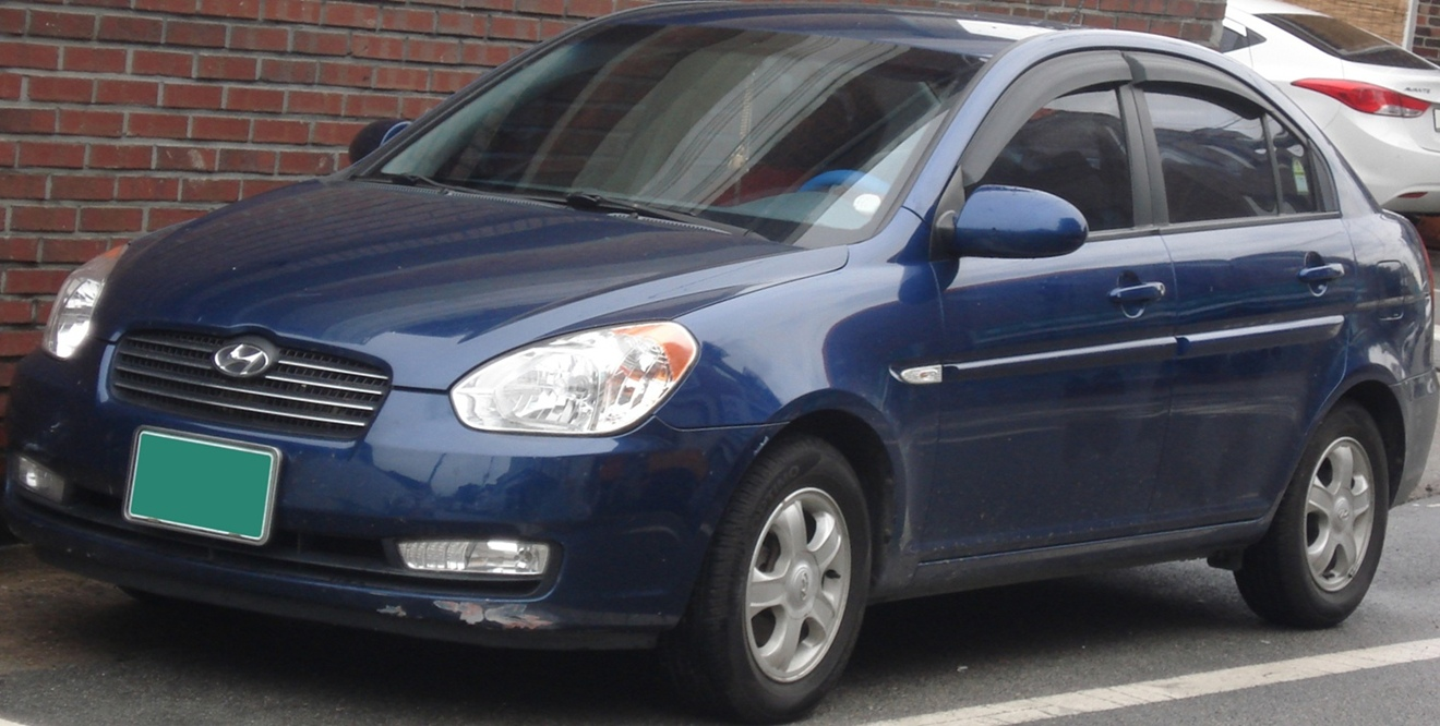 Hyundai Verna